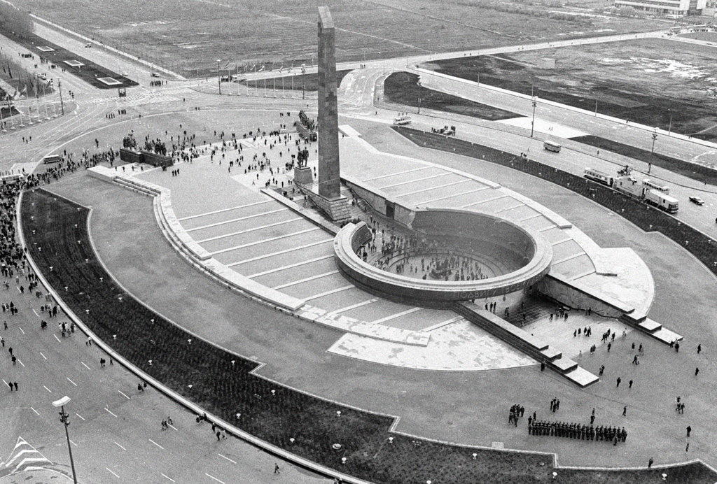 “The Heroic Defense of Leningrad monument”. The monument honoring the heroic defense of Leningrad in 1941-1943 and routing of German Nazi forces in 1944 by Mikhail Anikushin.